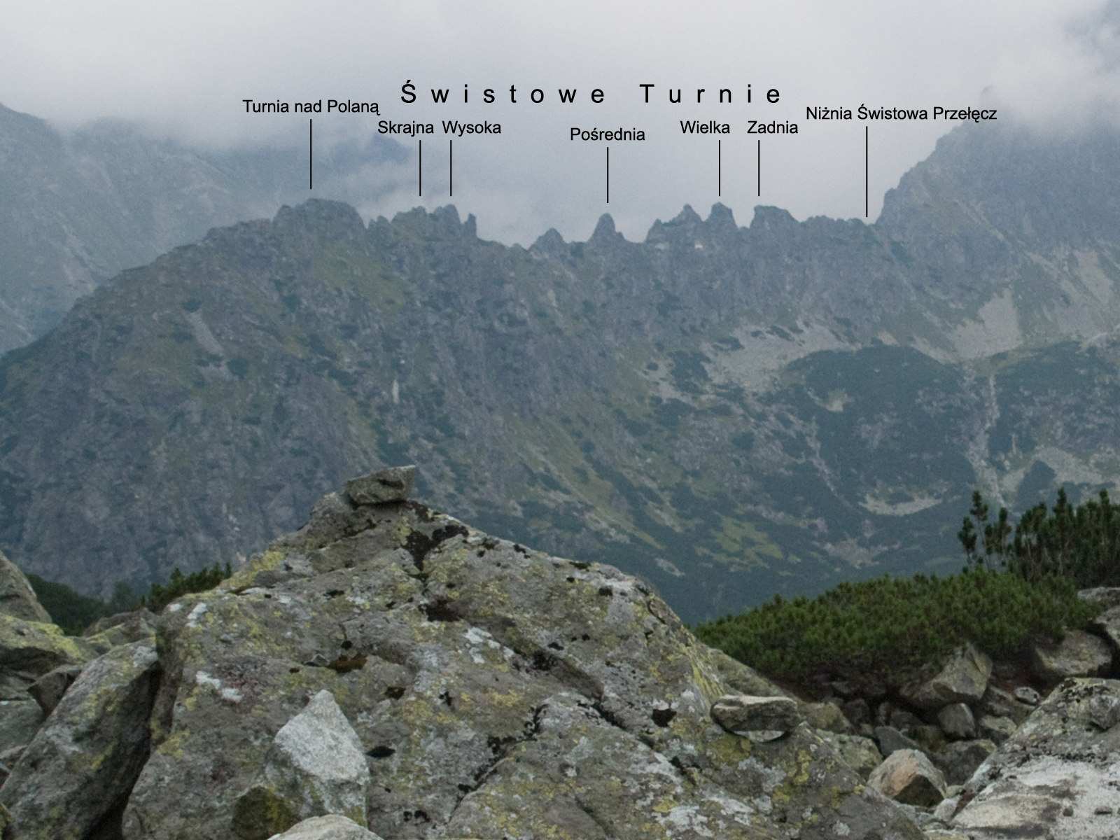 Svišťové veže (Polish captions).